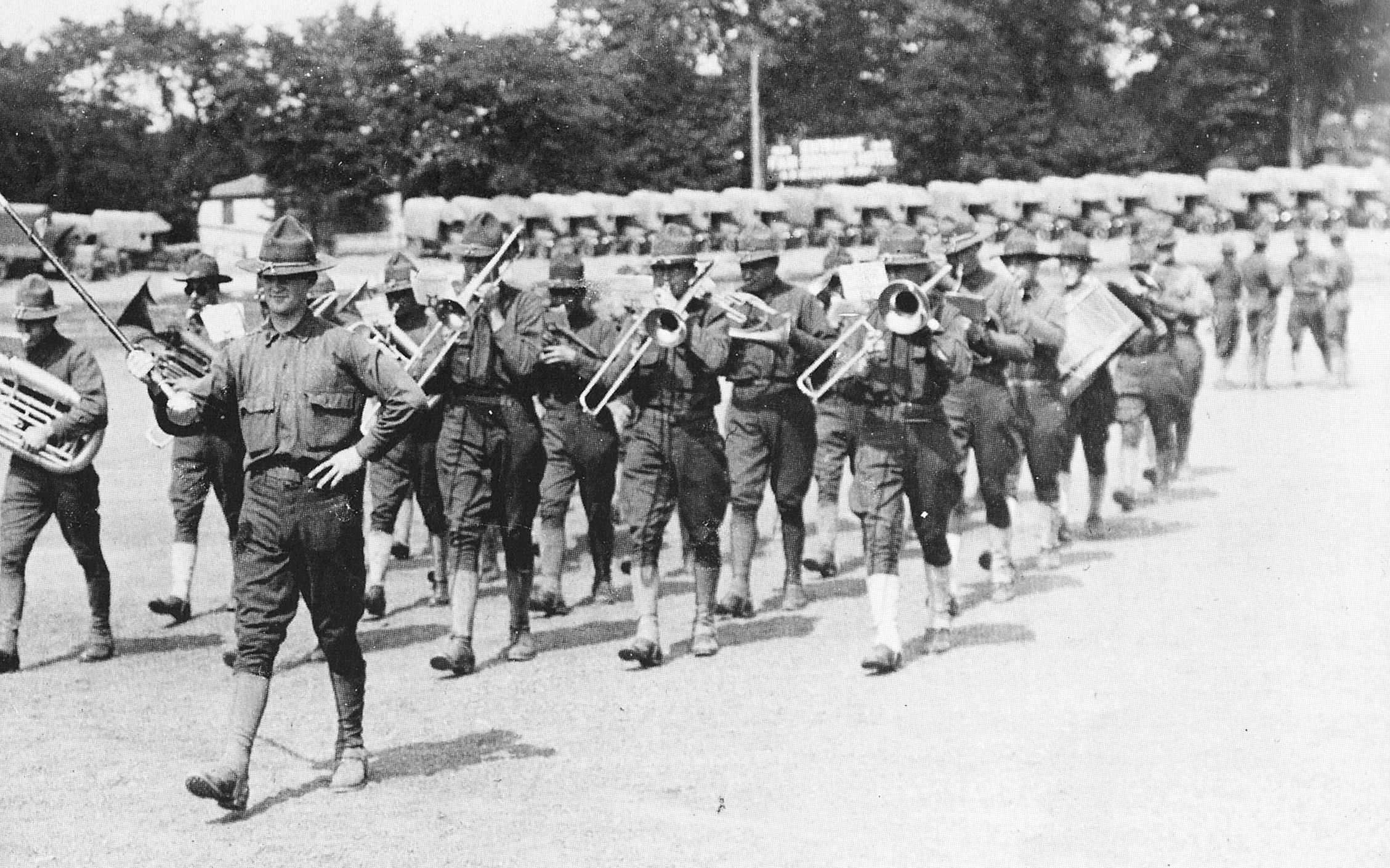 United States Army Ambulance Service Band - Camp Crane, Allentown Pennsylvania